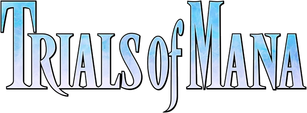 The logo for Trials of Mana (also known as Seiken Densetsu 3 or Secret of Mana 2).